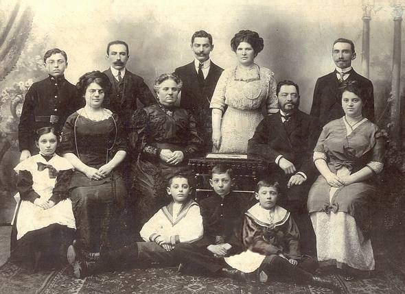 Karakis family. 1911 in Balta.